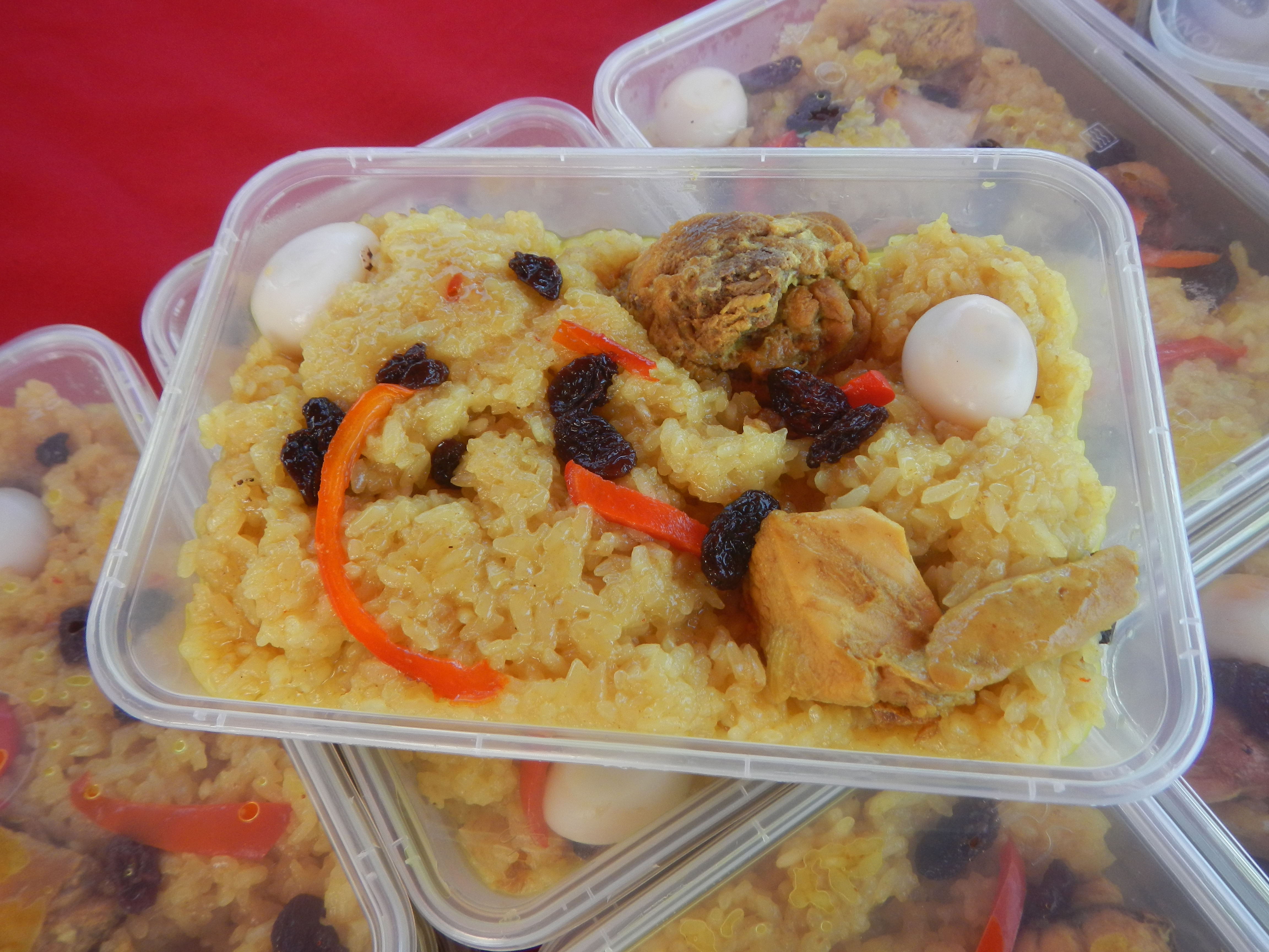 Food displayed for sale in Pampanga Kapampangan cuisine Santa Rita de Cascia "Apung Dita" Monument (Eco-Park, San Isidro Gasak, Santa Rita, Pampanga) Inaugurated on December 2, 2017 on the 16th Duman Festival (Eco-Park, San Isidro Gasak, Santa Rita, Pampanga) Barangay San Isidro 15°0'28"N 120°36'45"E Gasak 15°0'56"N 120°36'33"E from San Vicente 14°59'51"N 120°36'41"E Santa Rita, Pampanga (Note: Judge Florentino Floro, the owner, to repeat, Donor Florentino Floro of all these photos hereby donate gratuitously, freely and unconditionally all these photos to and for Wikimedia Commons, exclusively, for public use of the public domain, and again without any condition whatsoever).